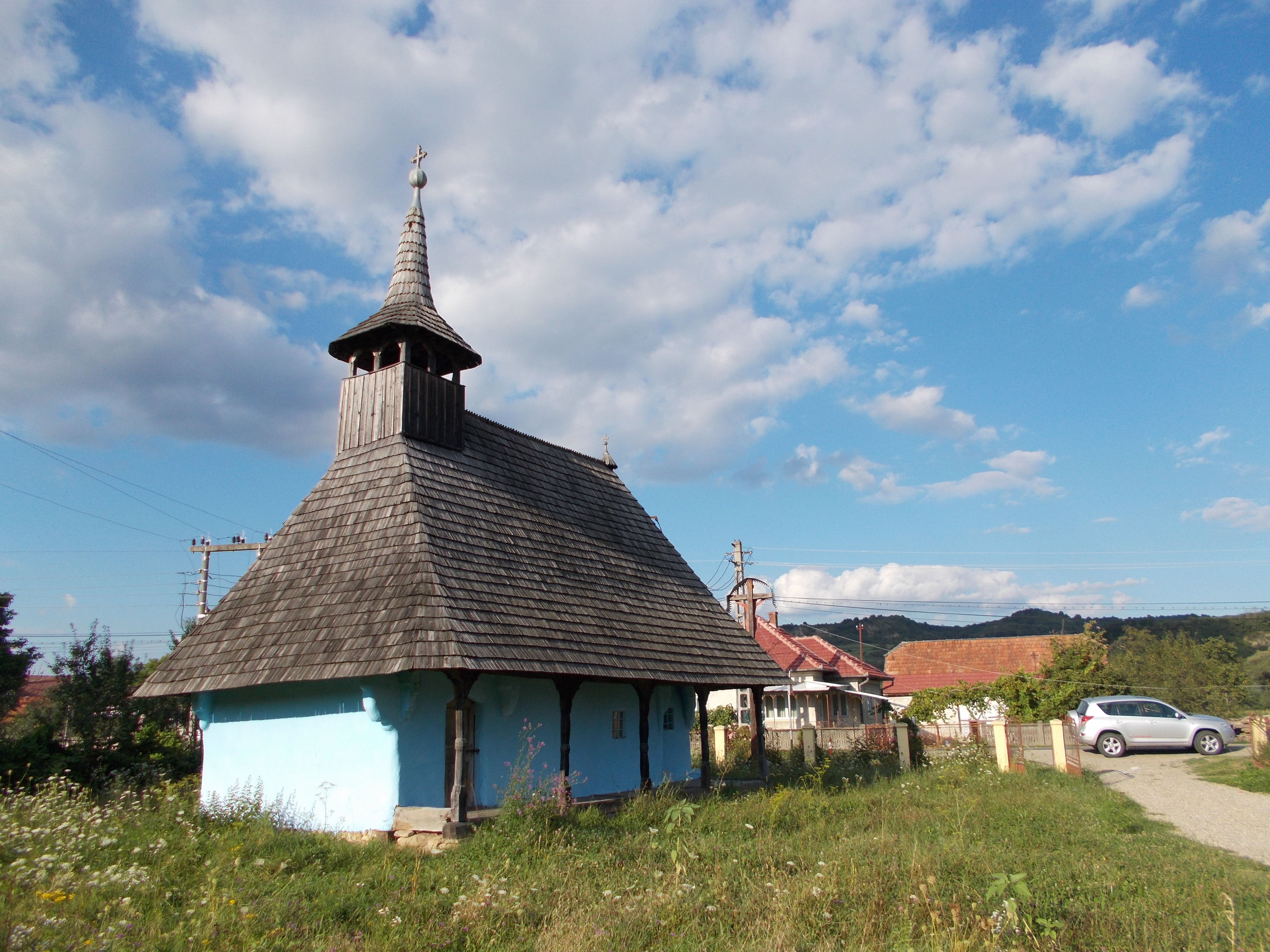 Cricova wooden church of the Assumption in Bălan, Sălaj County